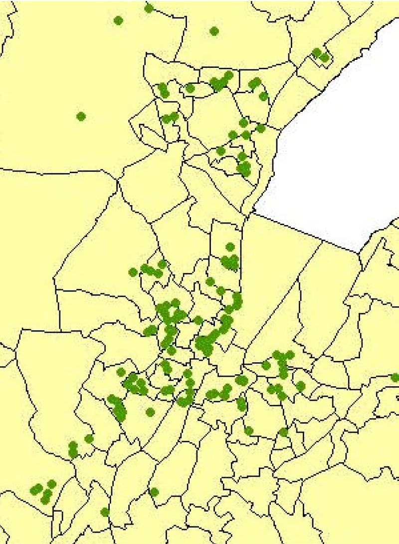 This map shows incidents of paramilitary punishment attacks reported to the media that occurred in Belfast between 1 July 1998 and 30 June 2000. Data was collected as part of a publicly funded study (Economic and Social Research Council).